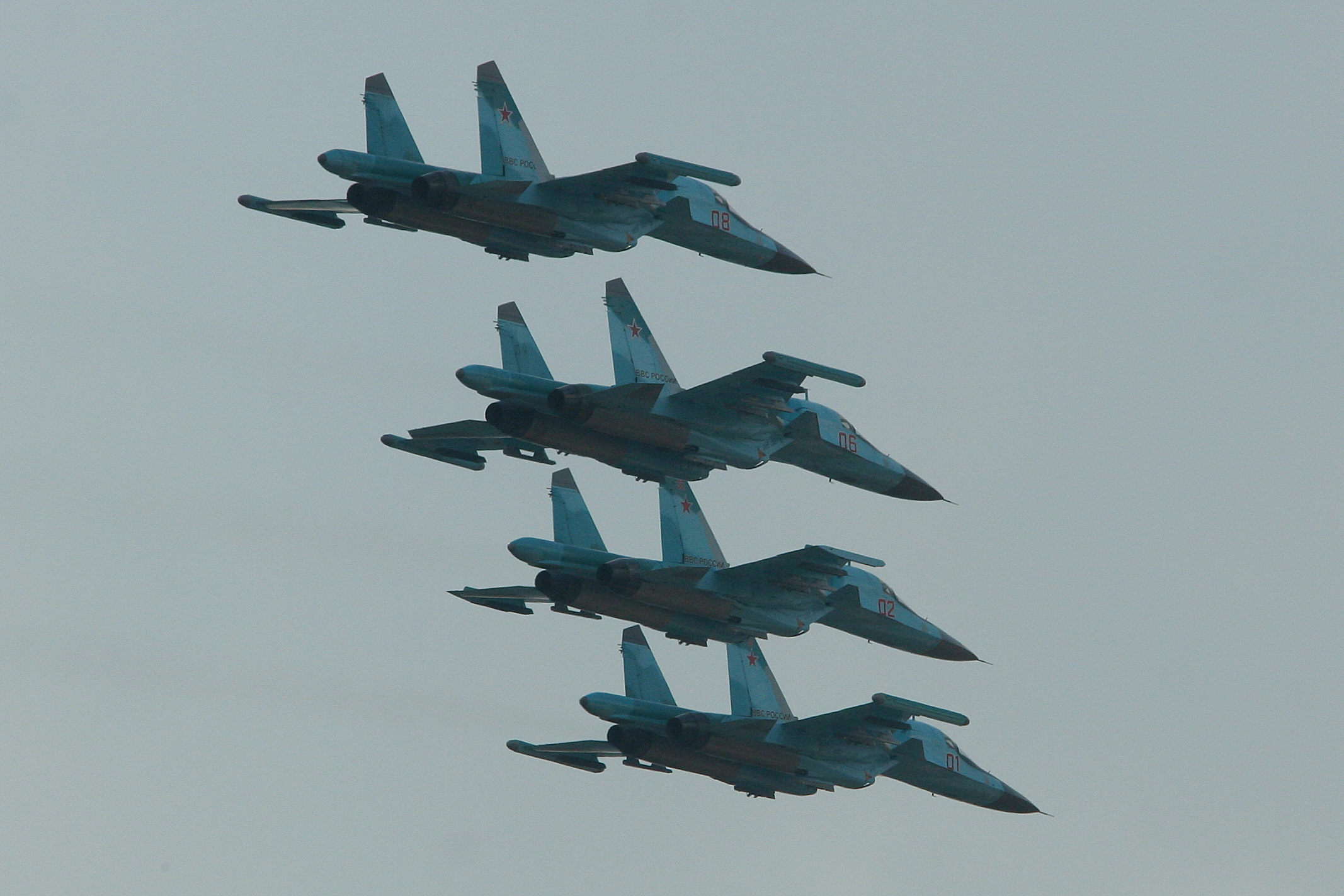 The fourth fast jet formation flyby was carried out by four Su-34 Fullbacks from 7000AvB, 1AvGr based at Voronezh. The aircraft in this formation were Bort codes:- '01 red', '02 red', '06 red' and '08 red'. None carried any 'RF-' numbers and the c/n are unknown. Russian Air Force 100th Anniversary Airshow. Zhukovsky, Russia. 12-8-2012